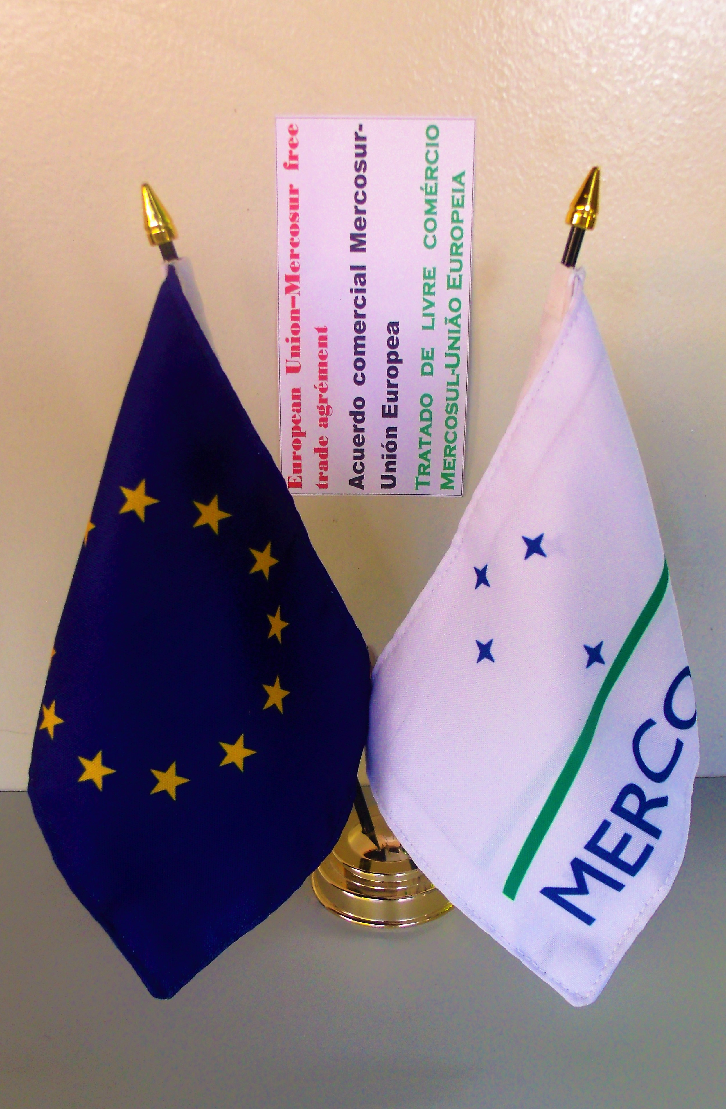 Flags Eropean Union and Mercosur (Free trade).